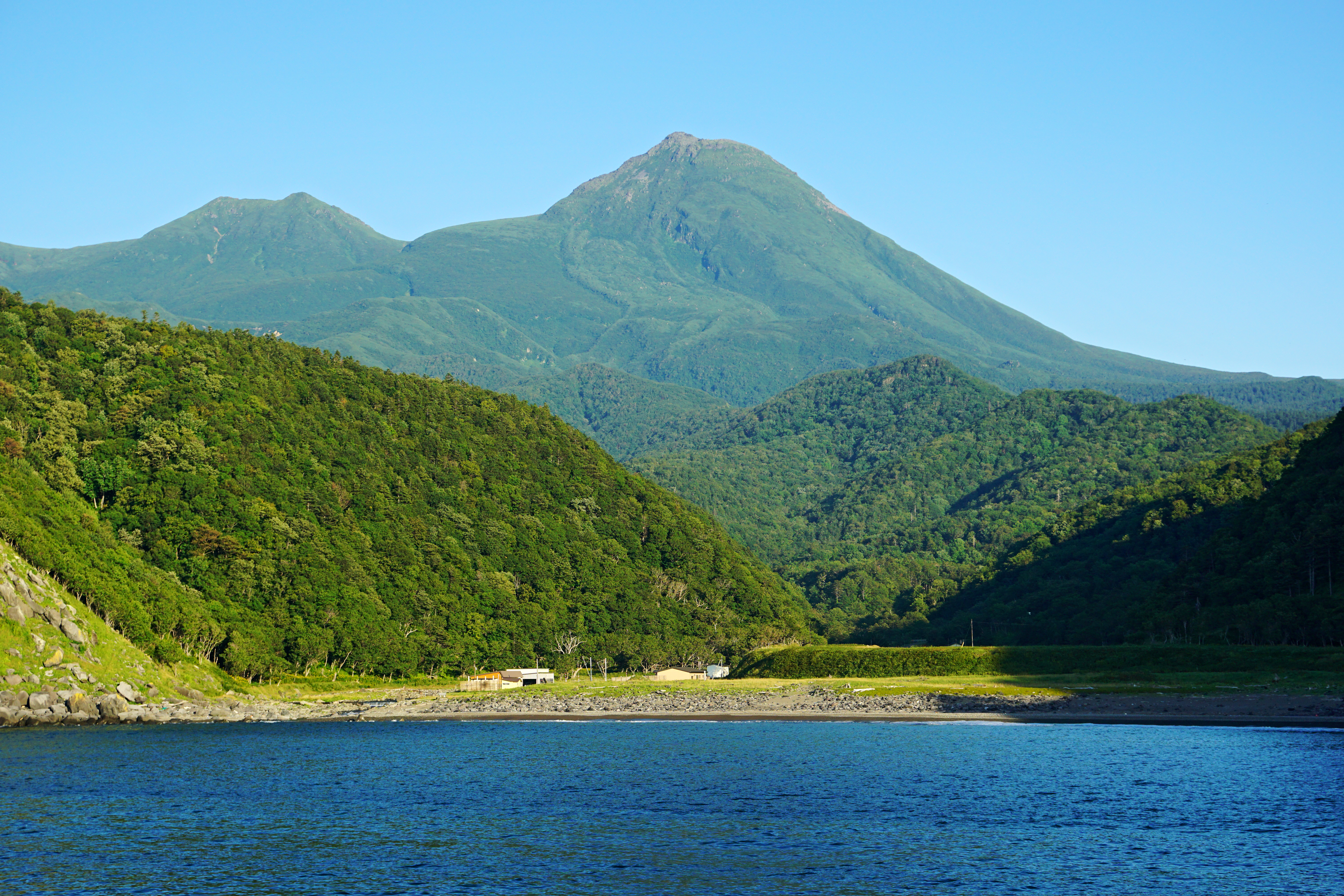 Mount Rausu view from the Sea of Okhotsk at Shari, Hokkaido prefecture, Japan.